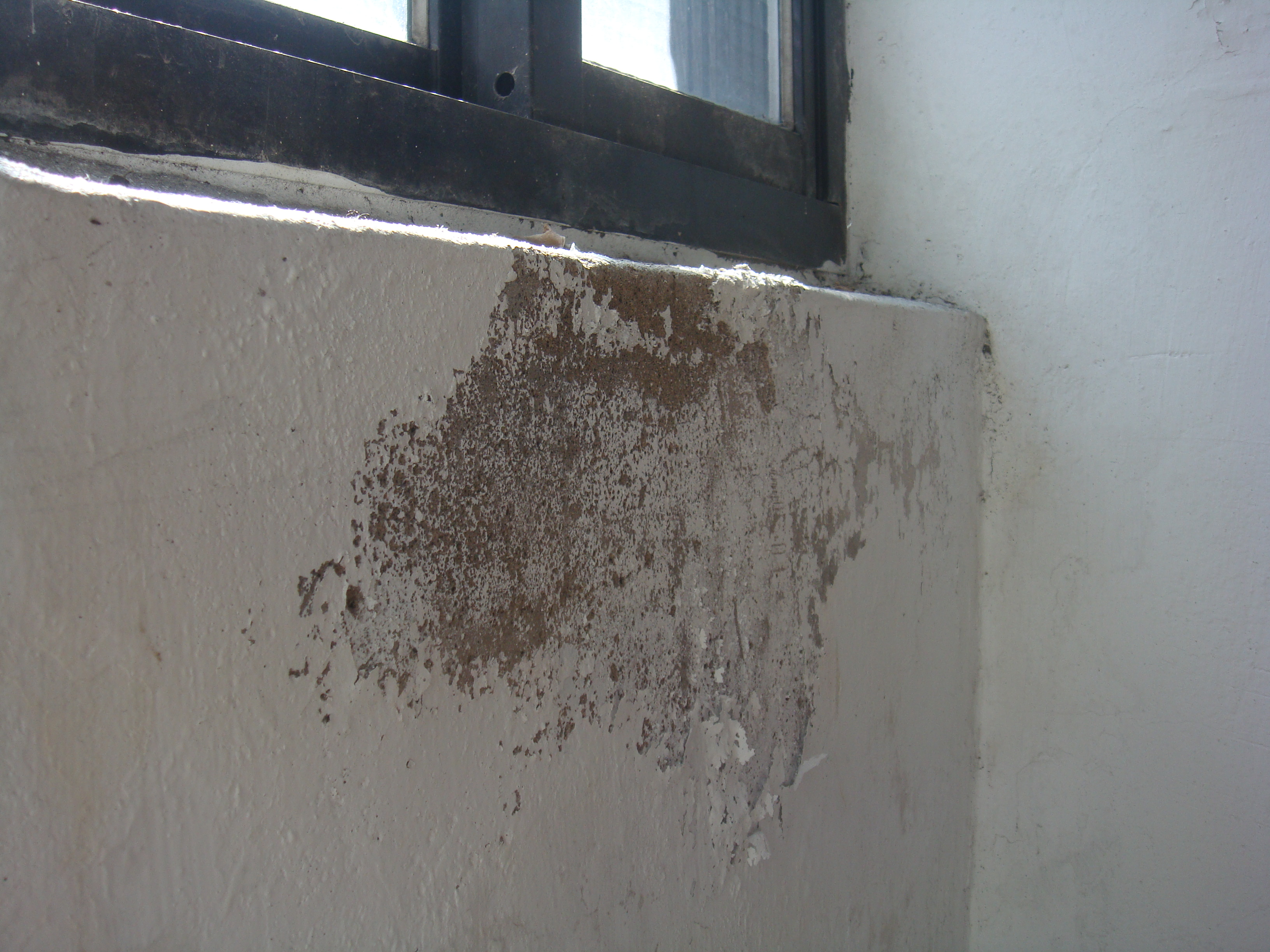 Efflorescence in corner.